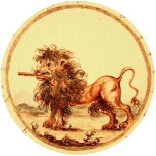 Coat of Arms of Žemaičių Naumiestis city in 1792